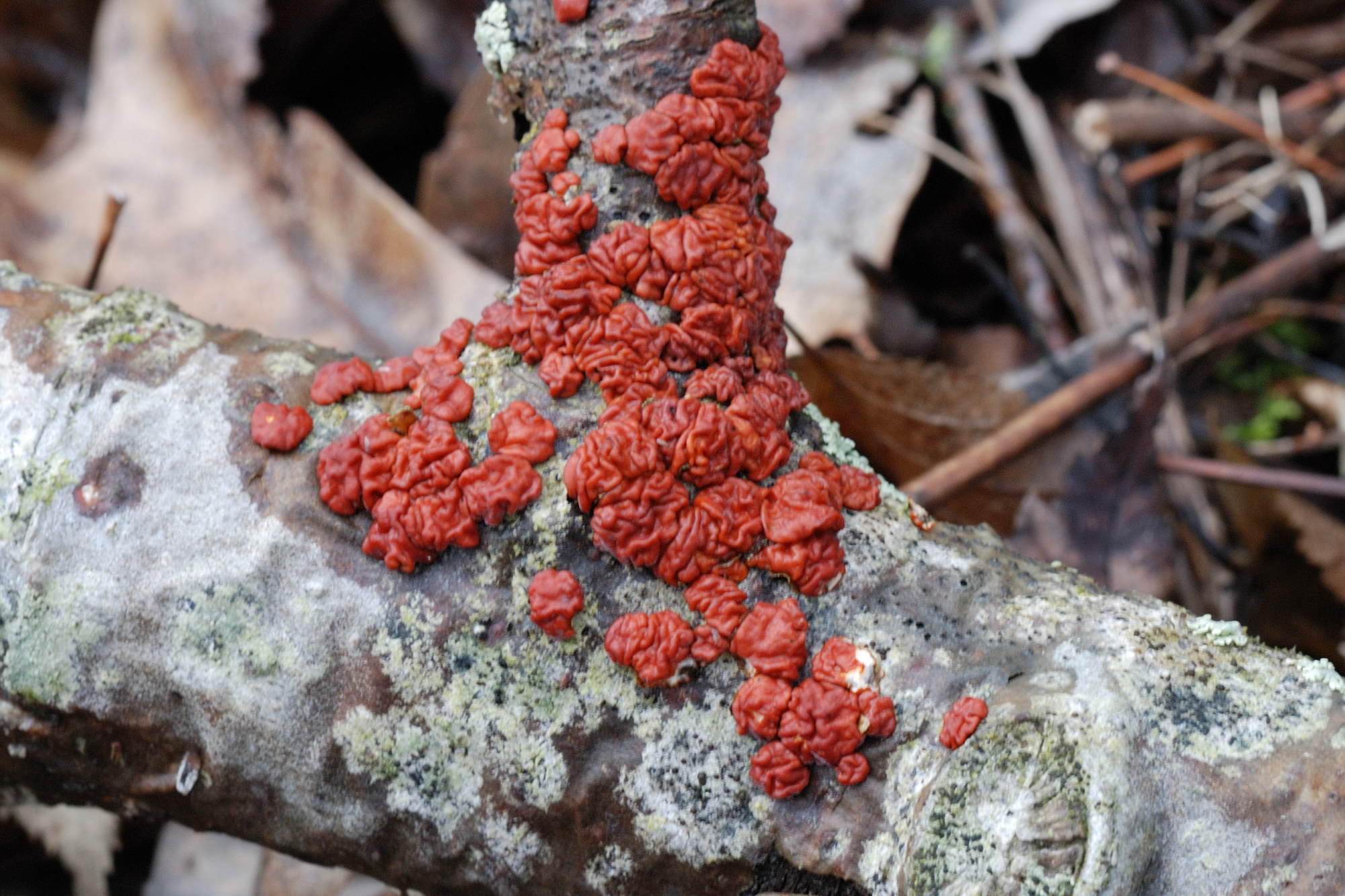 Fruit bodies of the fungus Peniophora rufa (Fr.) Boidin. SPecimens photographed in Port Dover, Ontario, Canada.